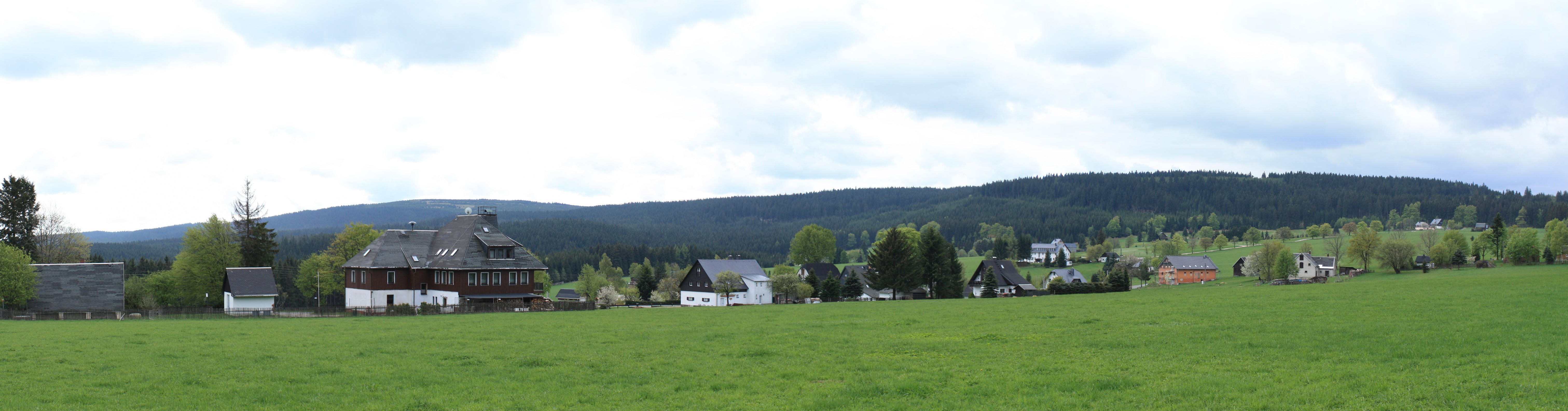 Oberjugel